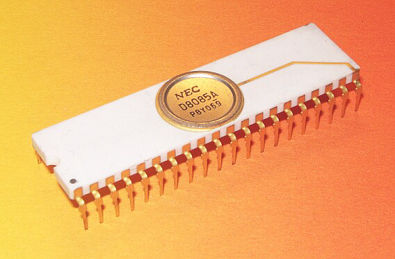 NEC D8085A